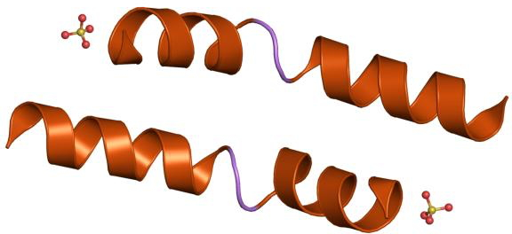 Cartoon representation of the molecular structure of protein registered with 2mlt code.